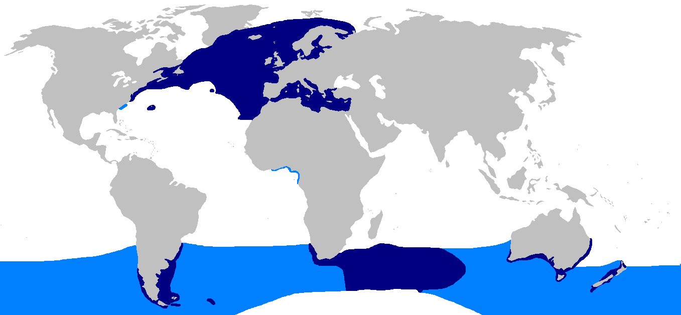 Confirmed (dark blue) and suspected (light blue) distribution of the porbeagle (Lamna nasus). Based on Compagno (2002).